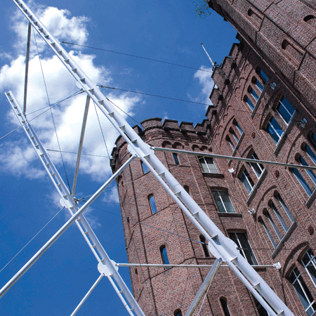 Archives du monde du travail, Roubaix